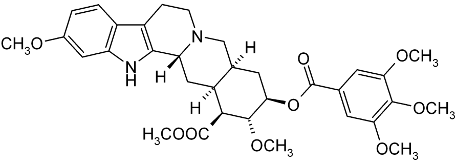 Chemical structure of reserpine